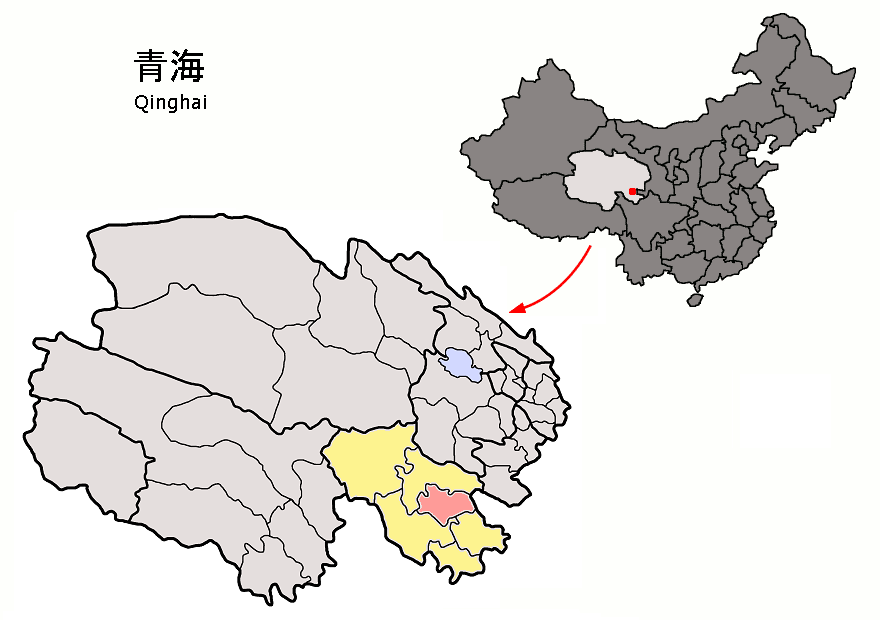 Location of Gadê County (pink) and Golog Prefecture (yellow) within Qinghai province of China Map drawn in september 2007 using various sources, mainly : Qinghai province administrative regions GIS data: 1:1M, County level, 1990 Qinghai Counties map from "Plateau Perspectives" (the limits of some county-level subdivisions may not be accurate)